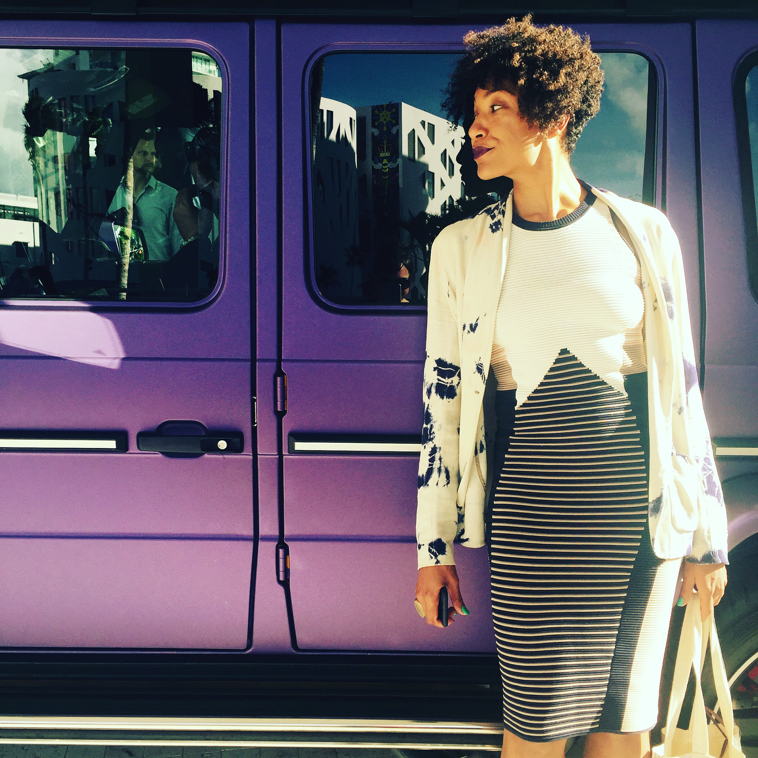 Claire Tancons, Miami Beach, 2016